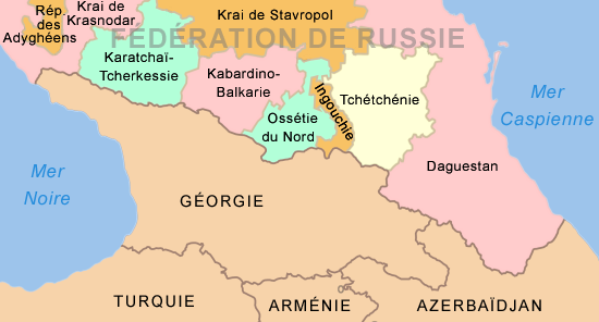 French translated map showing Chechnya's geographic relationship to the Caucasus region